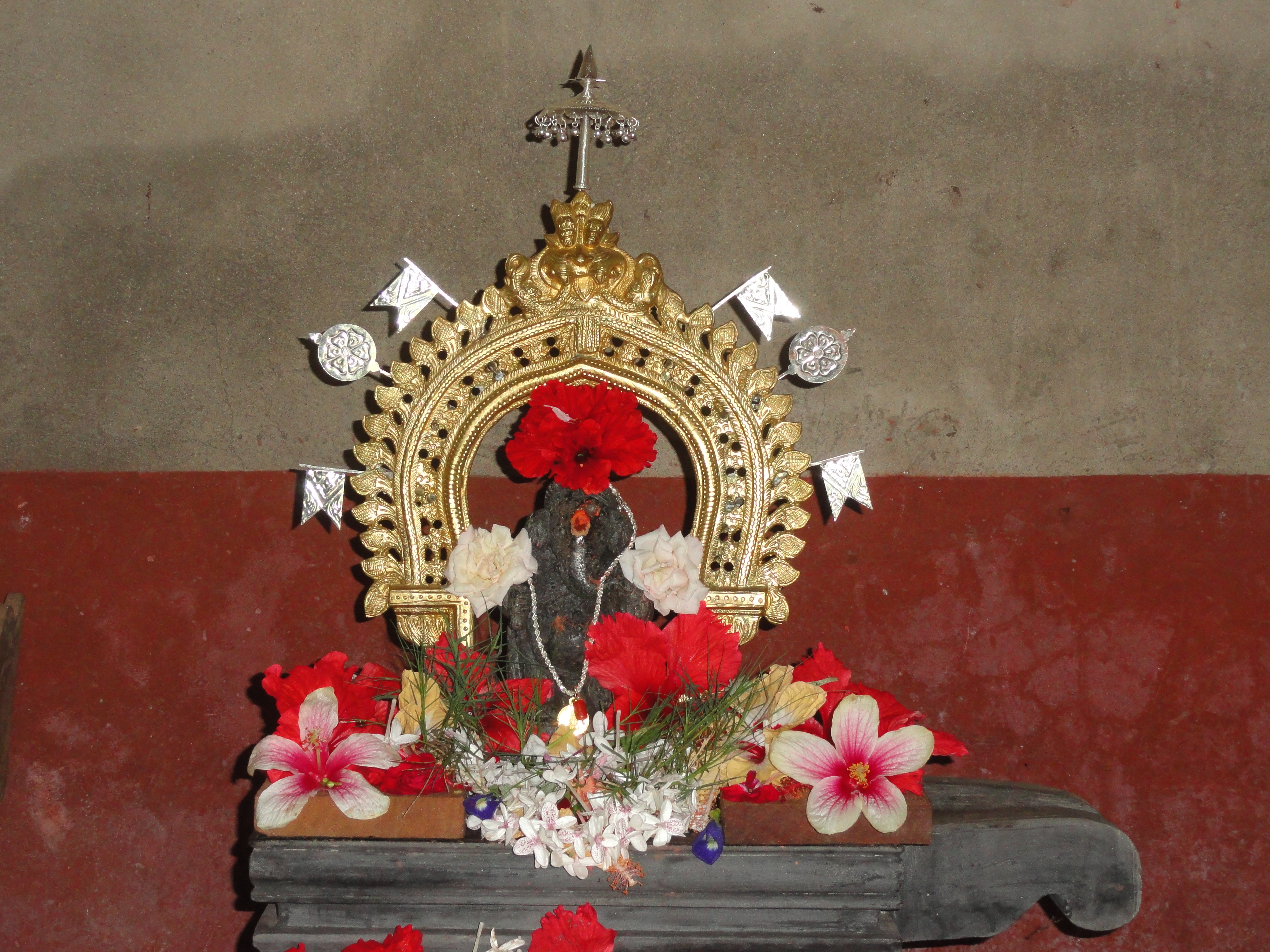 Lord Ganesha's Idol decorated in Hibiscus flowers, Gokarna Jasmine & Durva grass.